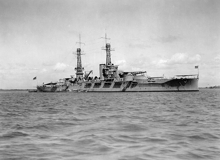 USS Oklahoma Battleship (BB-37) Removed caption read: Photo # NH 44462 USS Oklahoma at Guantanamo Bay, Cuba, 1 January 1920